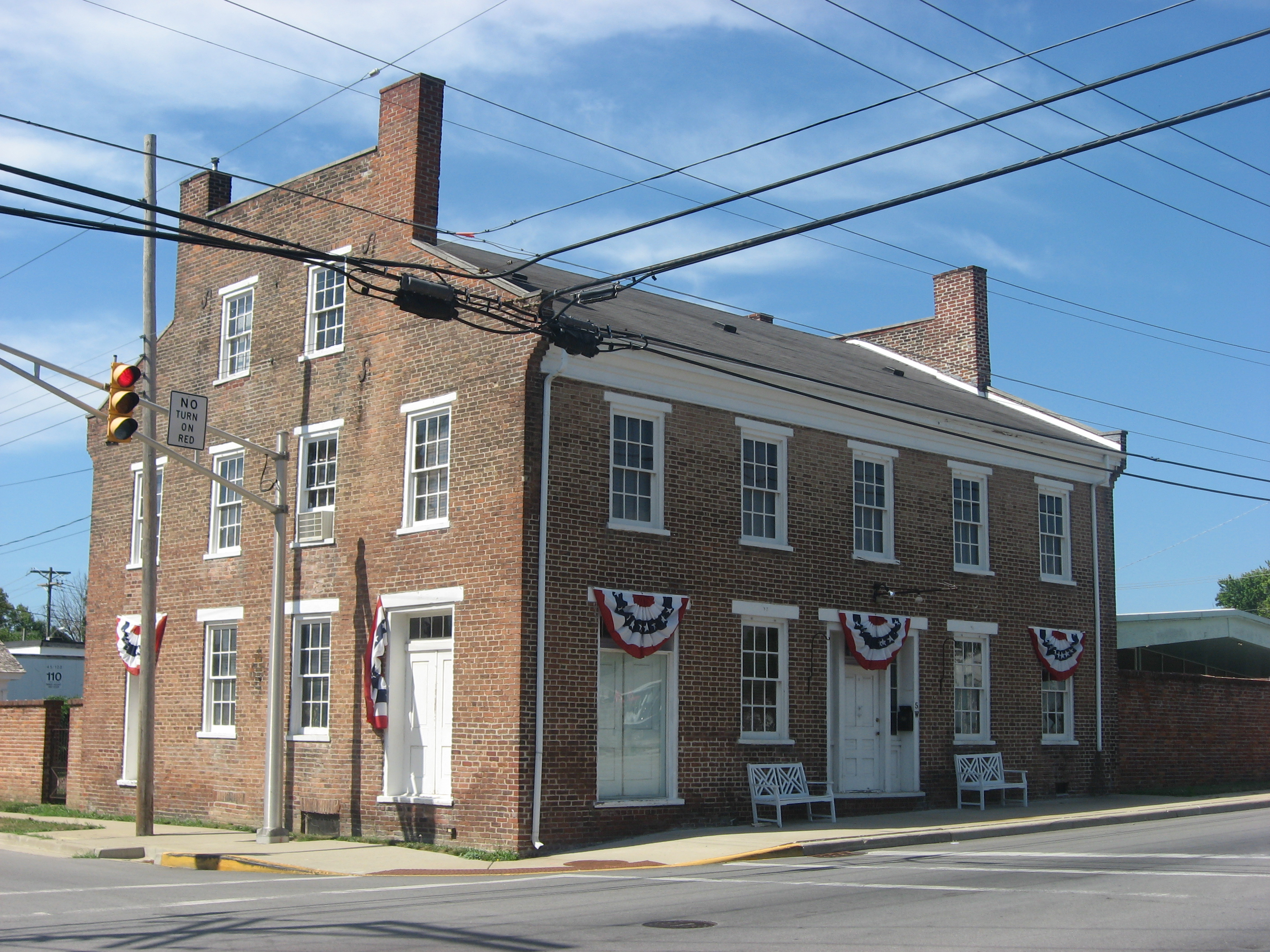 Front and eastern end of the George Makepeace House, located at 5 W. Main Street (State Road 32) in Chesterfield, Indiana, United States. Built in 1850, it is listed on the National Register of Historic Places.